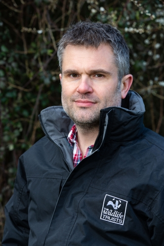 Craig Bennett 1 (C) Richard Jinman. Current CEO